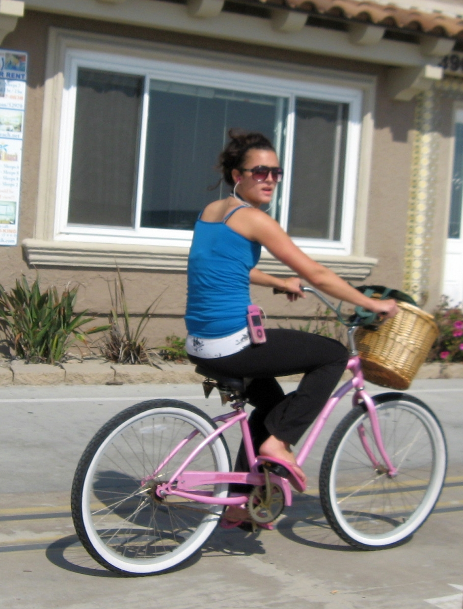 California Beach Cruisers chic #1